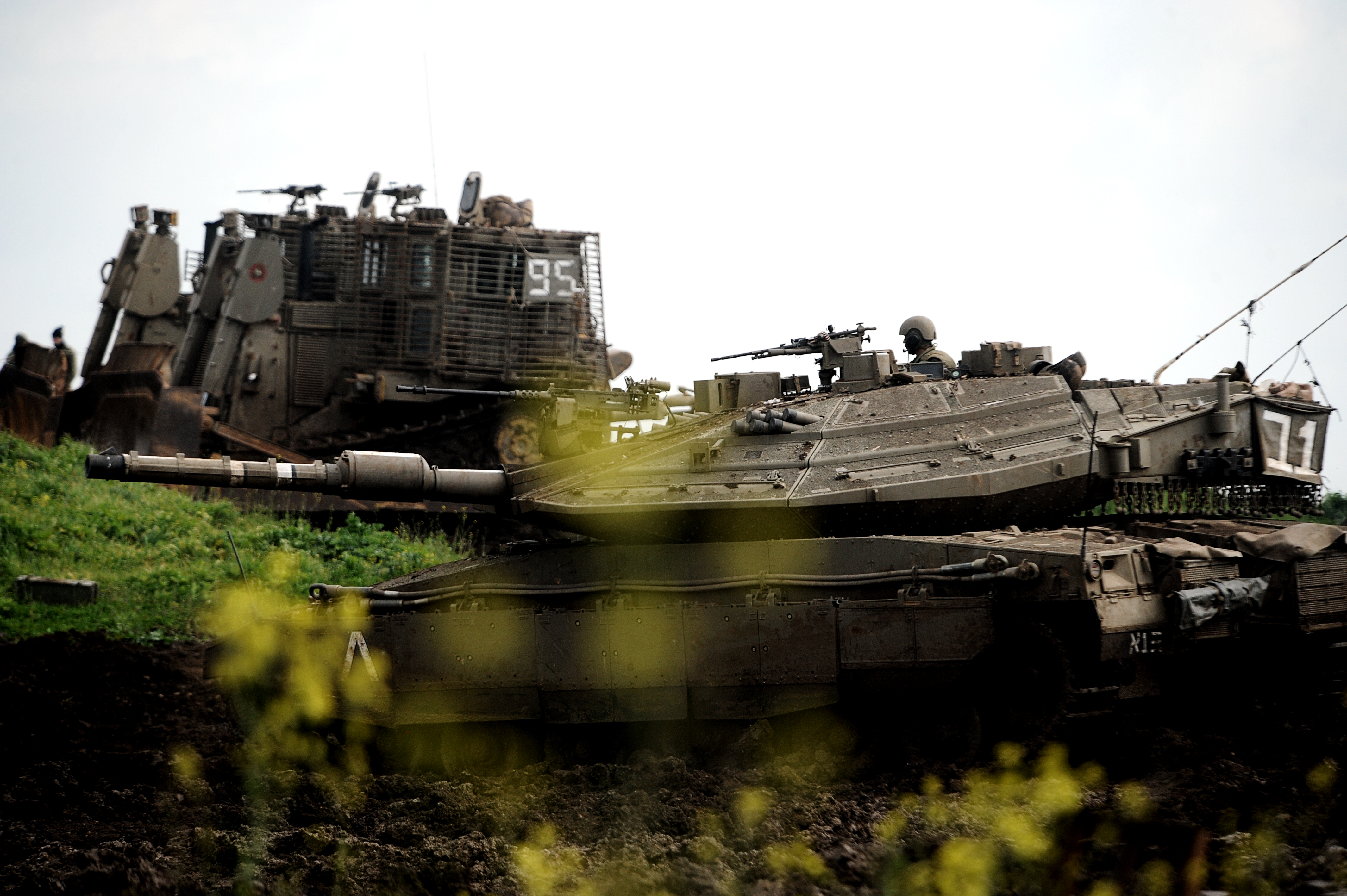 February 10, 2010. An armored battalion of the 401st Brigade takes part in a military exercise at the Golan Heights, as part of their winter training period. This Israeli-made tank, the Merkava Mark IV, is the most advanced tank used today in the IDF. It is quick and powerful, and is operated by the very best of the IDF. Featured as "Photo of the Day" on December 12, 2011. Photo by Michael Shvadron, IDF Spokesperon's Film Unit. The Israel Defense Forces Facebook page The Israel Defense Forces blog Follow us on Twitter